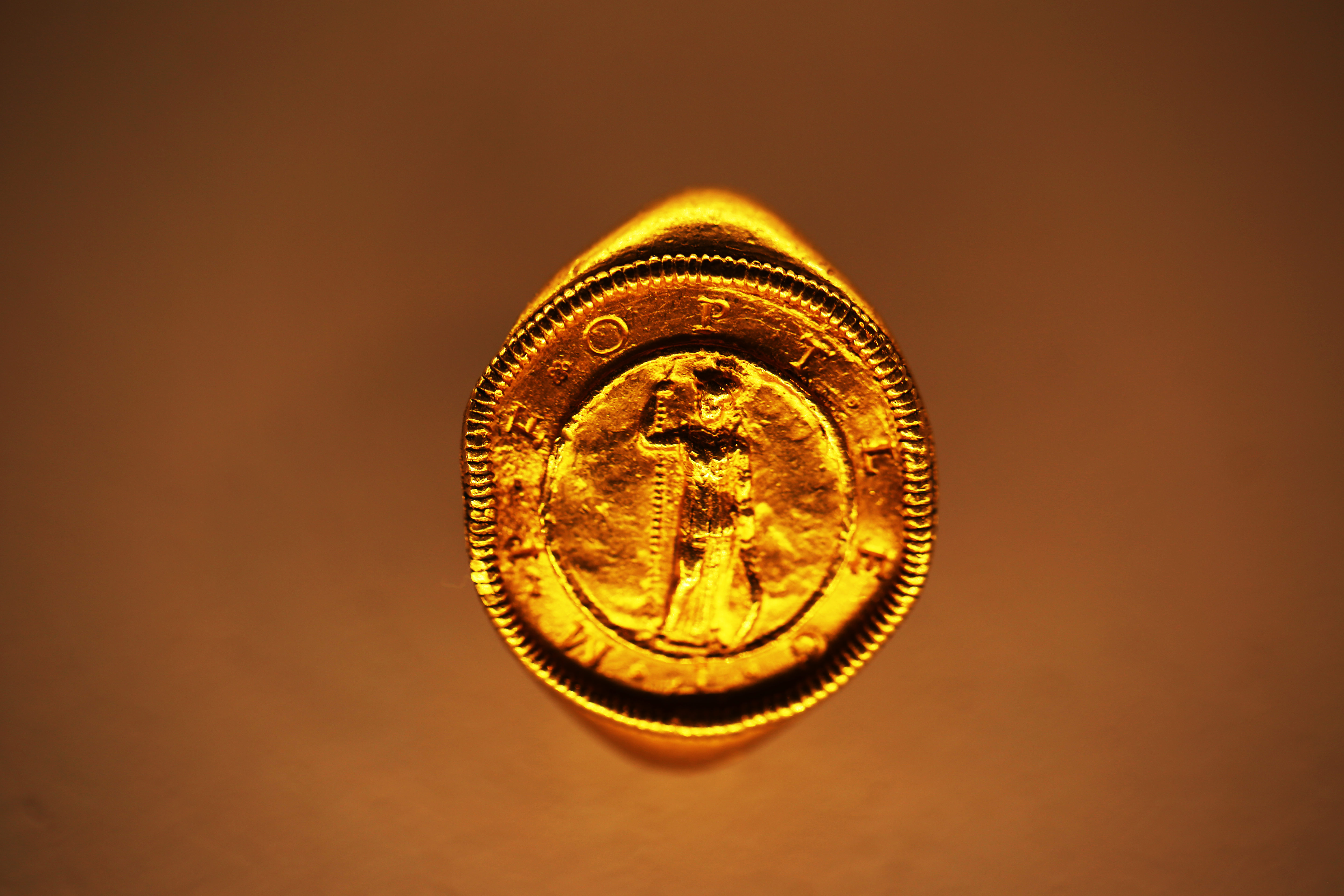 Golden ring of an roman optio with an engraving of Minerva (tutelary goddess), located in legionary camp Bonn 2nd-century, Germany